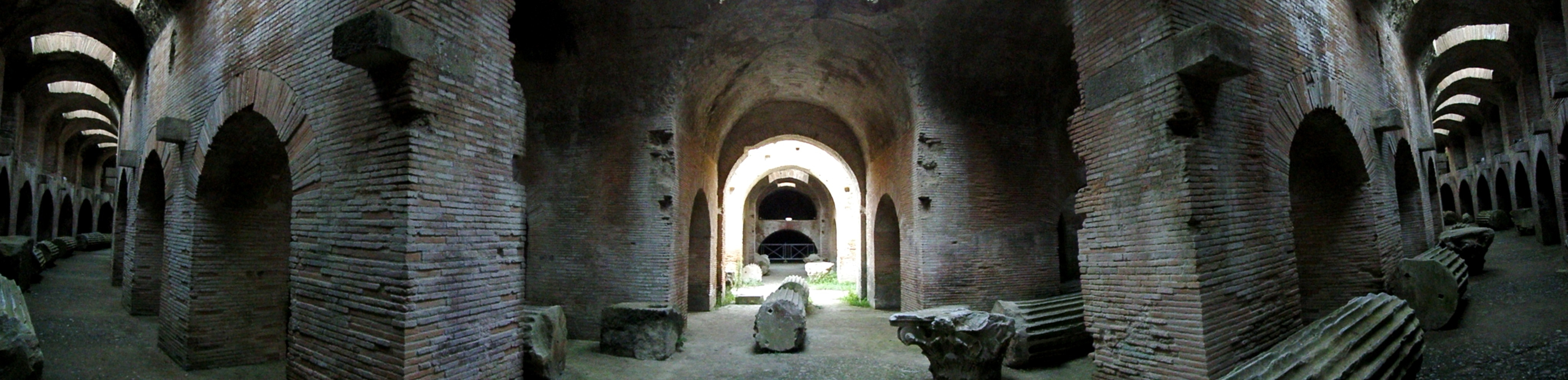 Panoramic view of the underground (under the arena) of the Flavium Amphitheatrum in Pozzuoli, Naples, Italy.